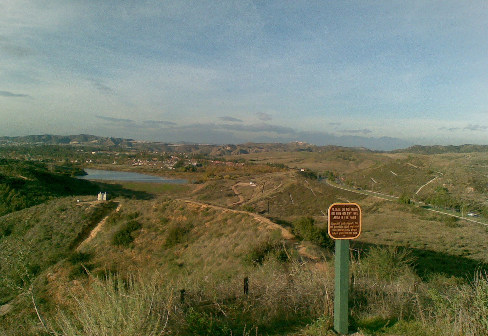 Peters Canyon Park, view of reservoir and east Orange Hills. Jamboree Road is also visible. coords: lat=33.7733908, lon=-117.7605924